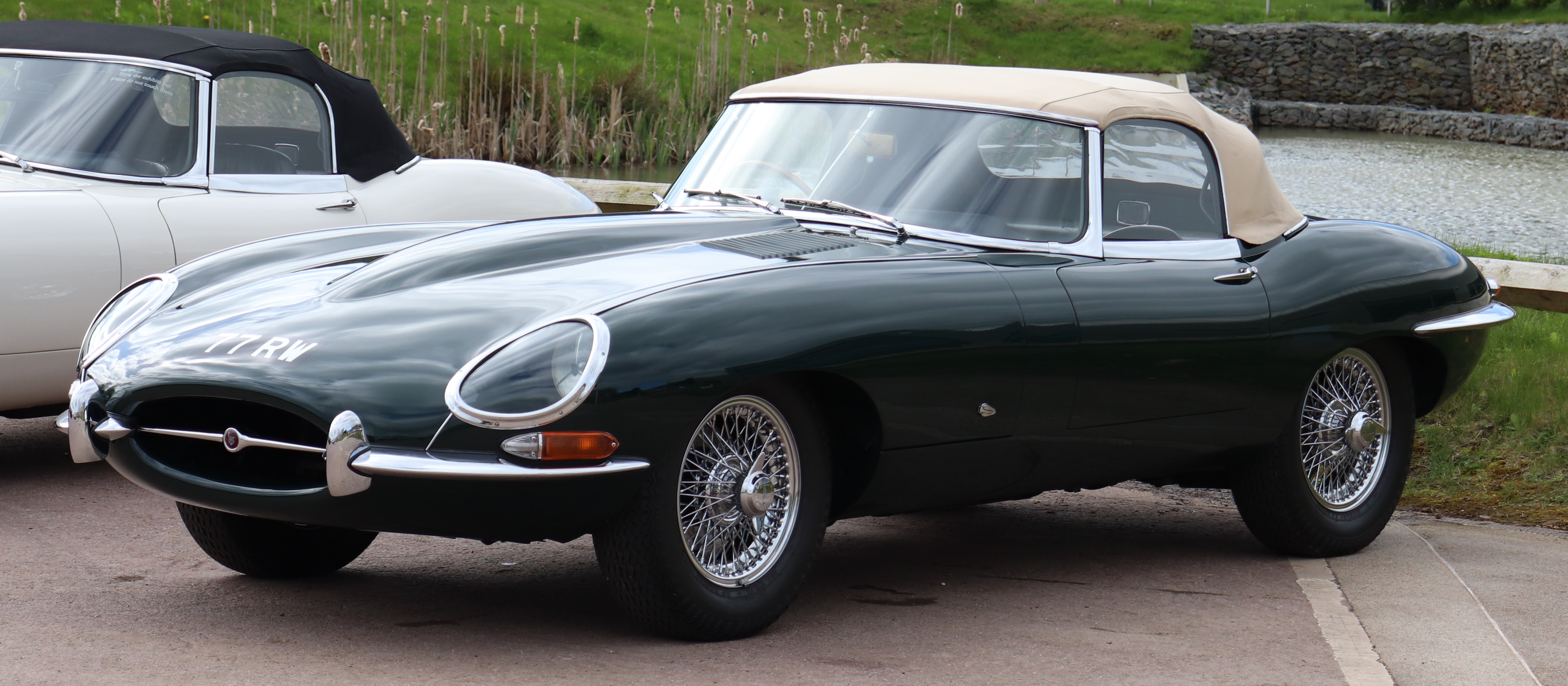 1961 Jaguar E-Type S1 3.8 Taken at the British Motor Museum, Gaydon